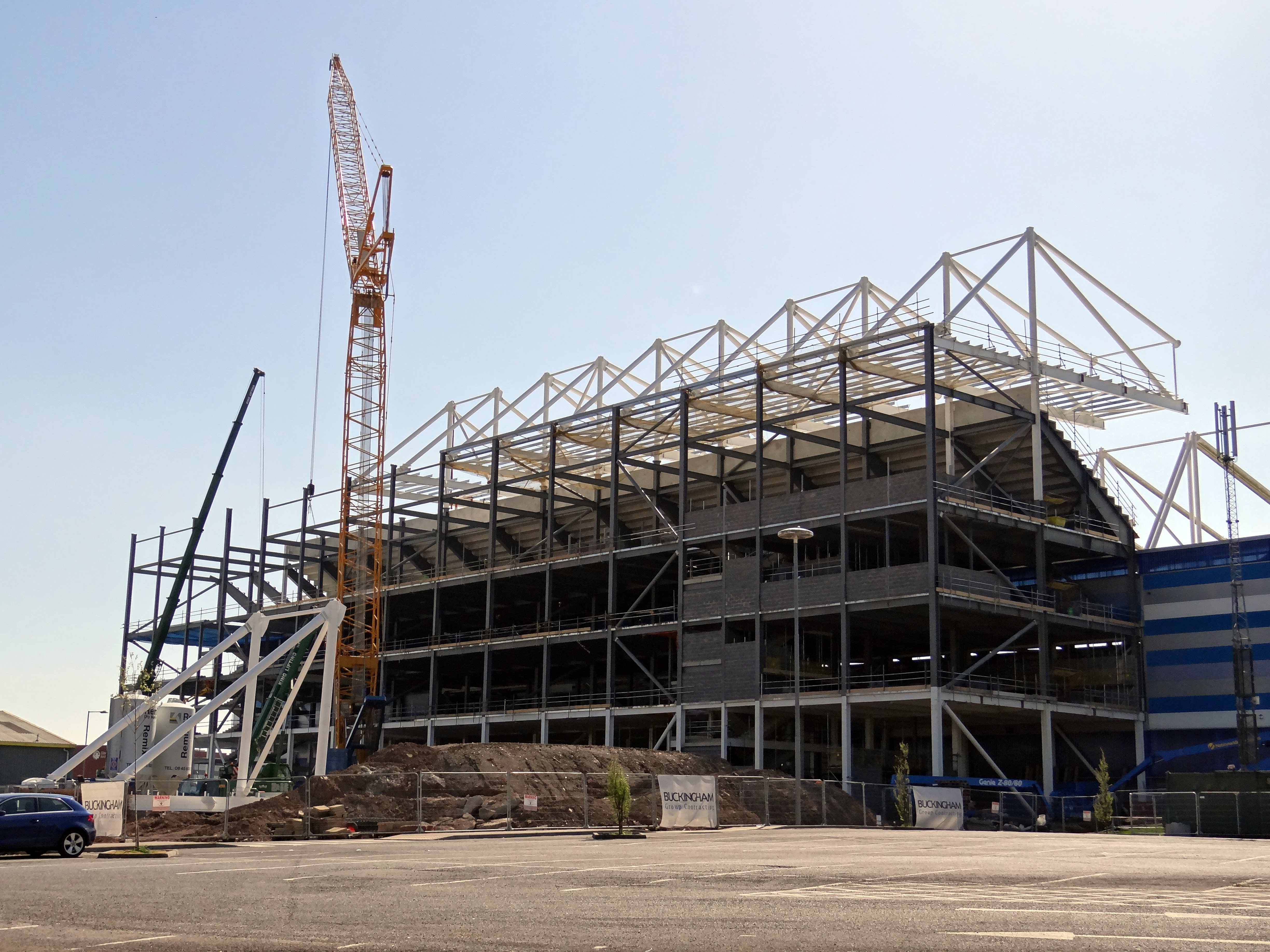 Ninian Stand development